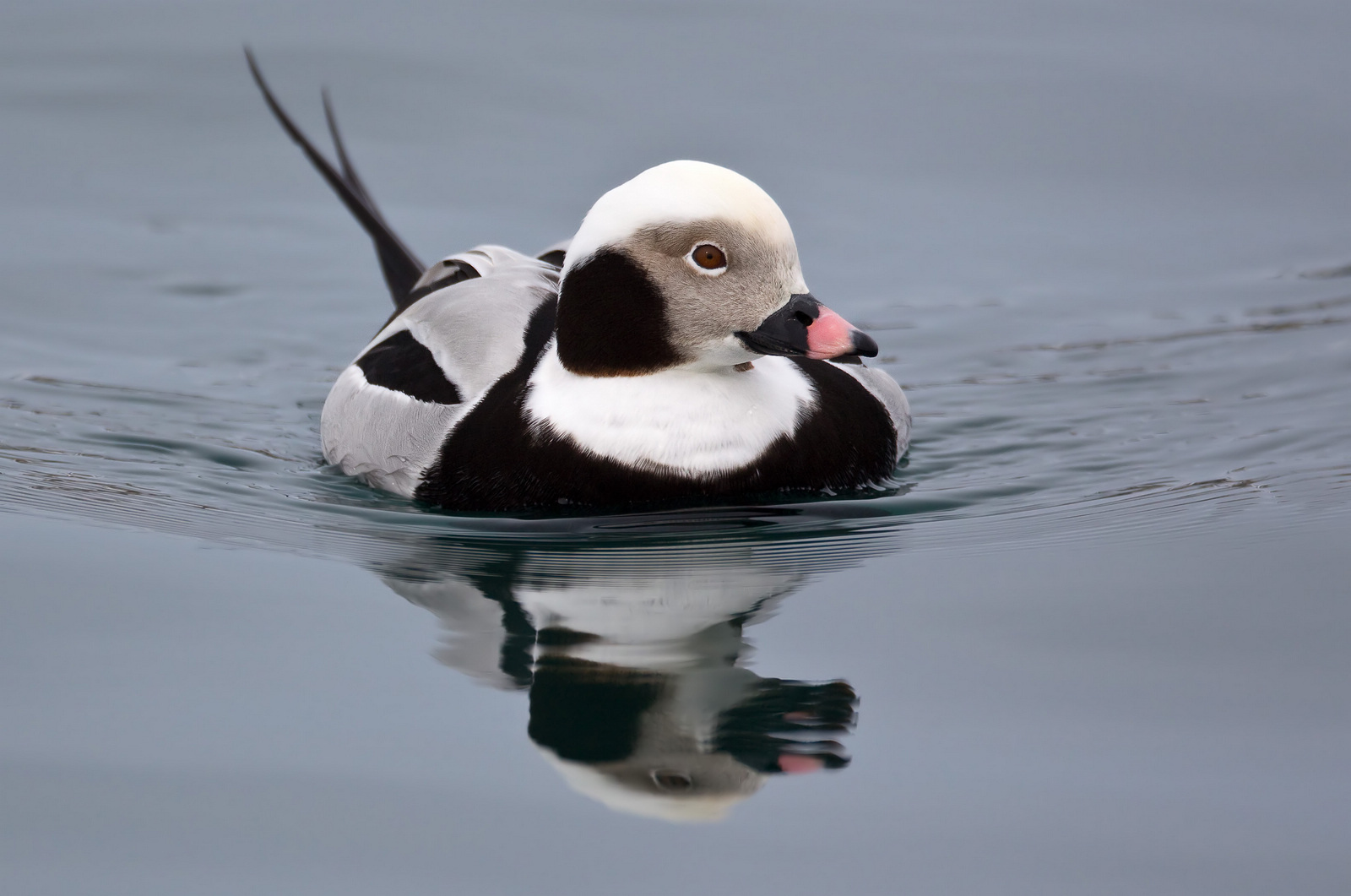 An adult male Long-tailed Duck in Hokkaido, Japan.